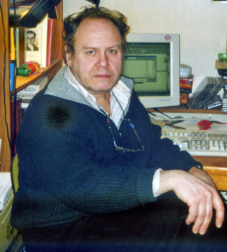 Yuri Kolker in his study, 2003